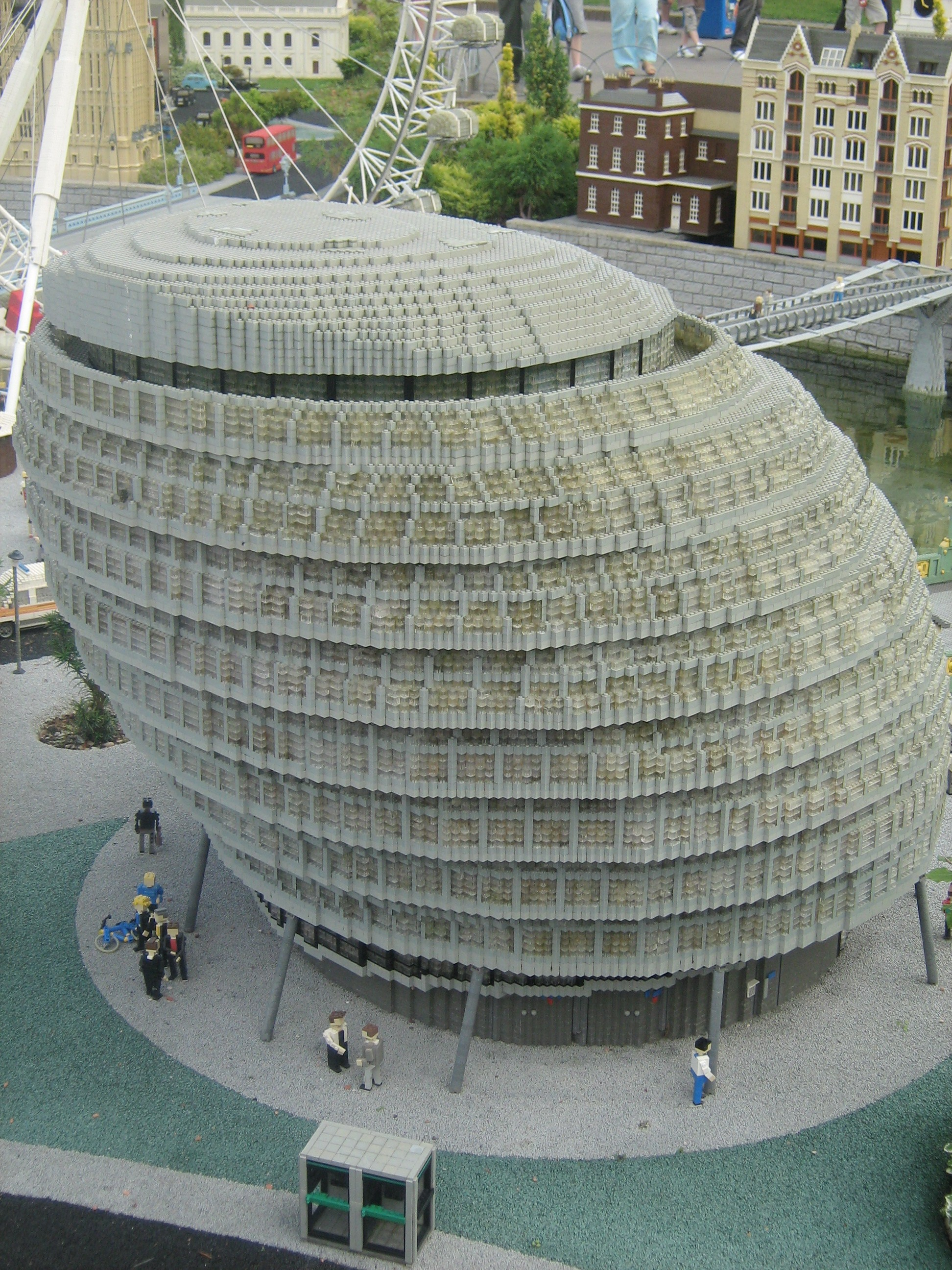 Model of City Hall in Miniland, Legoland Windsor (Side View)